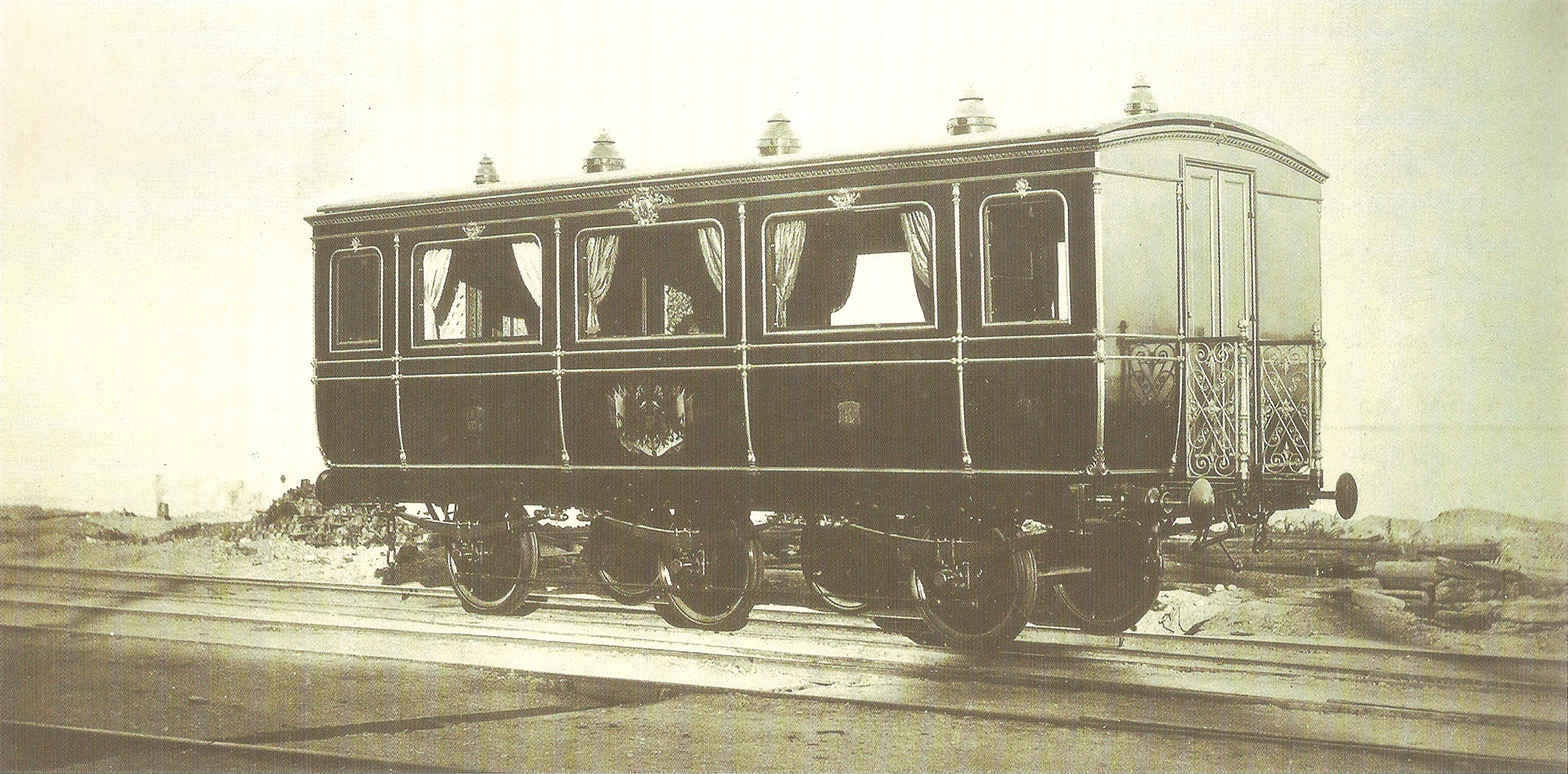 As3 carriage, part of the royal train of the Companhia Real dos Caminhos de Ferro Portugueses (Royal Company of the Portuguese Railways). Entered service in 1856, and was destroyed on a fire at the Santa Apolónia depot, in the XIX Century.